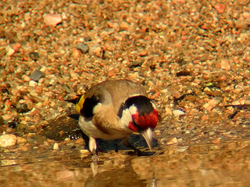 Macho bebiendo. Description: Spanish goldfinch male drinking.(Carduelis carduelis parva) Creator: Fernando Zamora. Date: 15 de enero de 2008 (15-01-2008) Place: Sevilla